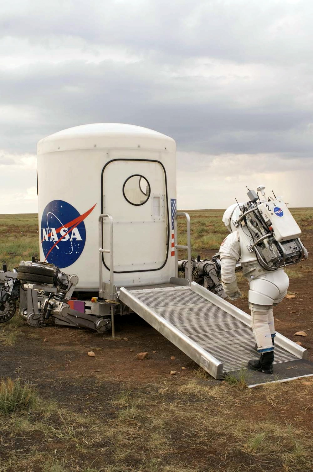 JSC2006-E-39964 - Testing the next generation of spacesuits and equipment in the Arizona desert, an "astronaut" heads to a mock way station that has been delivered to the site by a giant robot capable of "walking" over steep terrain. The giant robot, known as Athlete or All-Terrain Hex-Legged Extra-Terrestrial Explorer vehicle, can be seen at rest beneath the way station. The test was part of the 2006 NASA's Desert Research and Technology Studies (RATS), a team of scientists and engineers who test futuristic equipment that may one day be used for explorations of the moon and Mars.